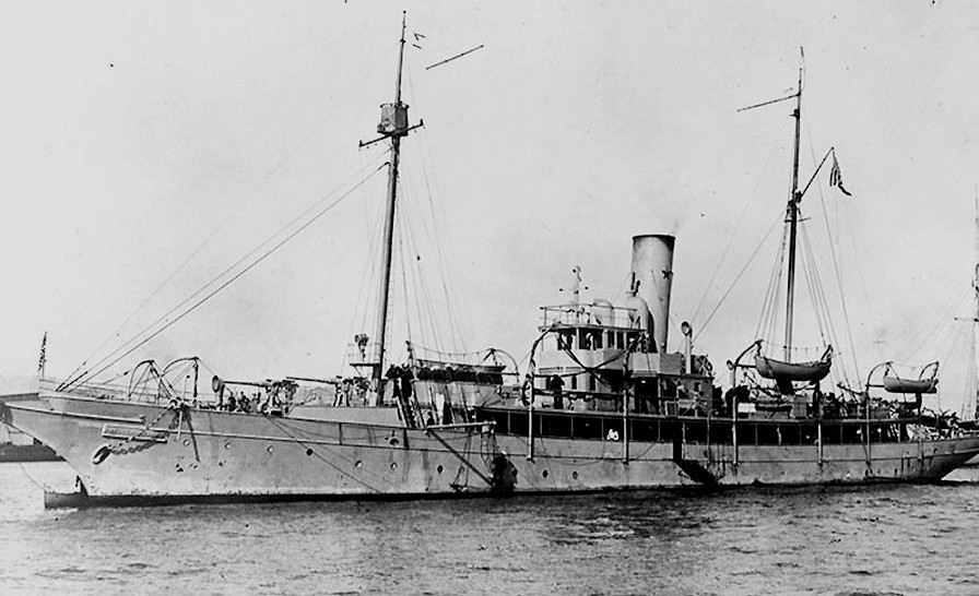 Photo #: NH 85180-A USS Venetia (SP-431) Photograph dated 26 February 1919, upon her return to San Francisco, California, following World War I service. She has a star mounted on her smokestack in recognition of her wartime anti-submarine activities. Venetia was formerly the yacht of San Francisco businessman John D. Spreckels. U.S. Naval Historical Center Photograph.